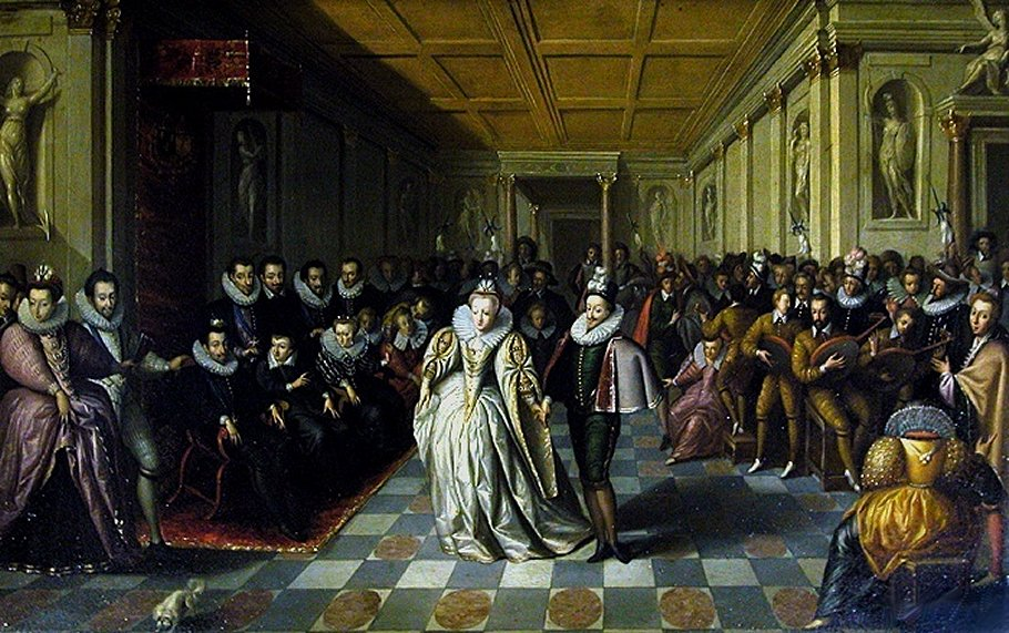 The painting depicts the wedding ball of the Duke of Joyeuse and Marguerite of Lorraine, in Paris on 24 September 1581. Joyeuse was the favourite of King Henry III of France, and Marguerite was the sister of Henry's wife, Queen Louise of Lorraine. According to the description of this picture in the 1988 catalogue of the Armada Exhibition at the National Maritime Museum, Greenwich, London, the newlyweds are depicted in the centre; to the left sits Henry III beside Catherine de' Medici and his wife, Queen Louise; behind them stand the dukes of Guise, Mayenne, and d' Epernon (Armada, London: Penguin, 1988, ISBN 0140103015).